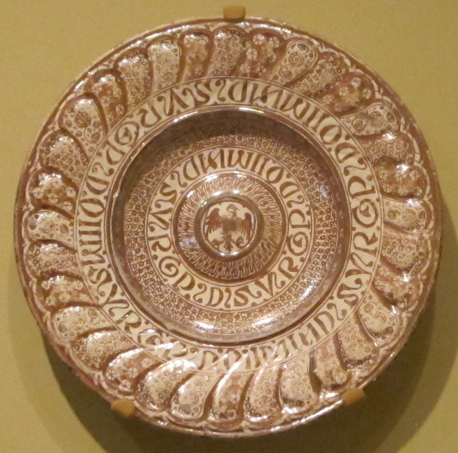 Charger with inscriptions from Spain, early 16th century, glazed earthenware with overglaze-painted luster, Honolulu Academy of Arts, long-term loan from the Doris Duke Foundation for Islamic Art